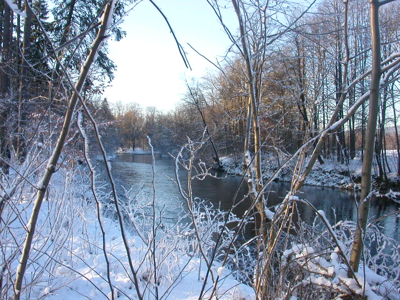 Ager River near Schalchham (Regau)